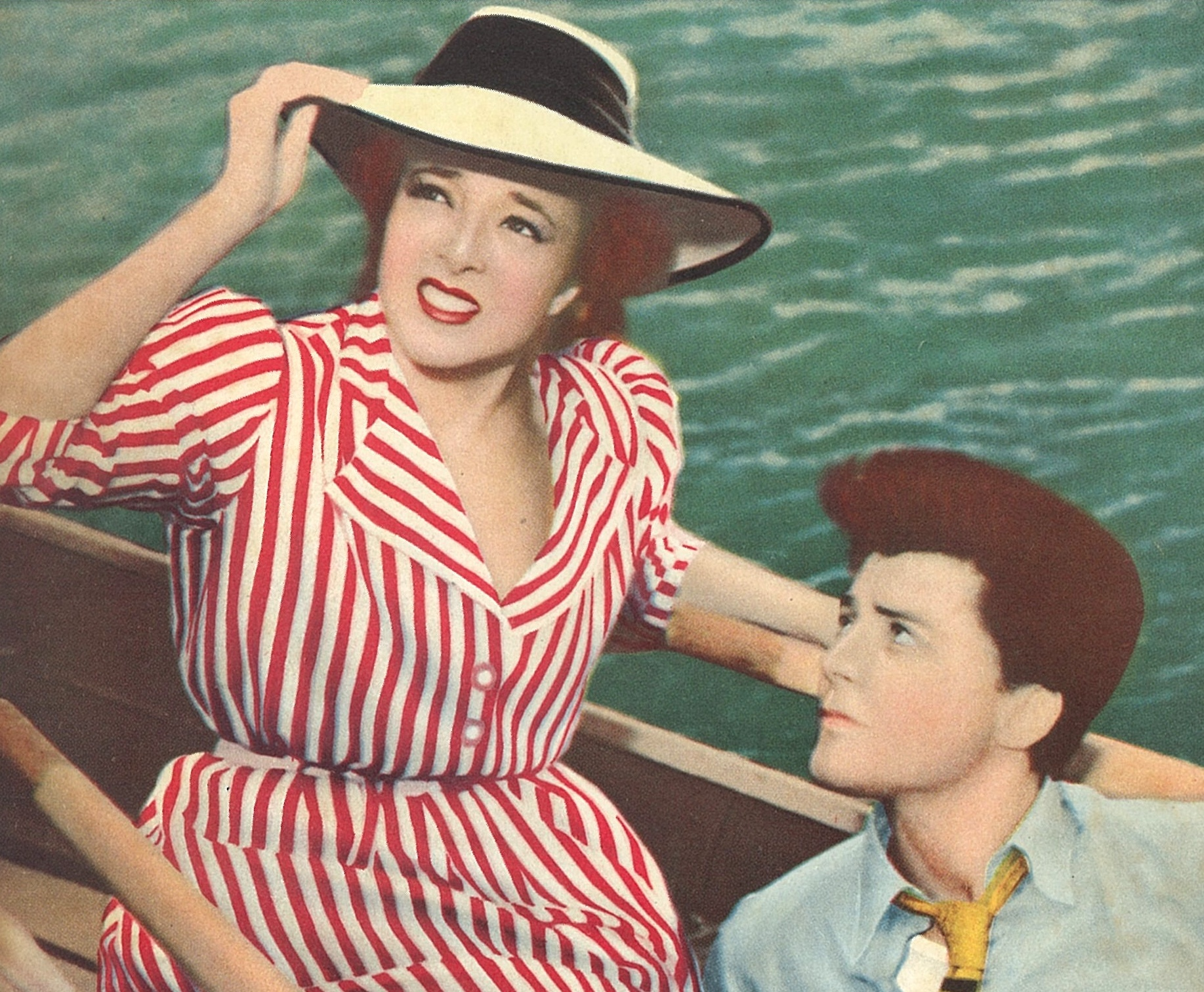 The movie poster of Le Diable au corps (Devil in the Flesh) (肉体の悪魔) (1947) from Eiga no Tomo (November 1952).